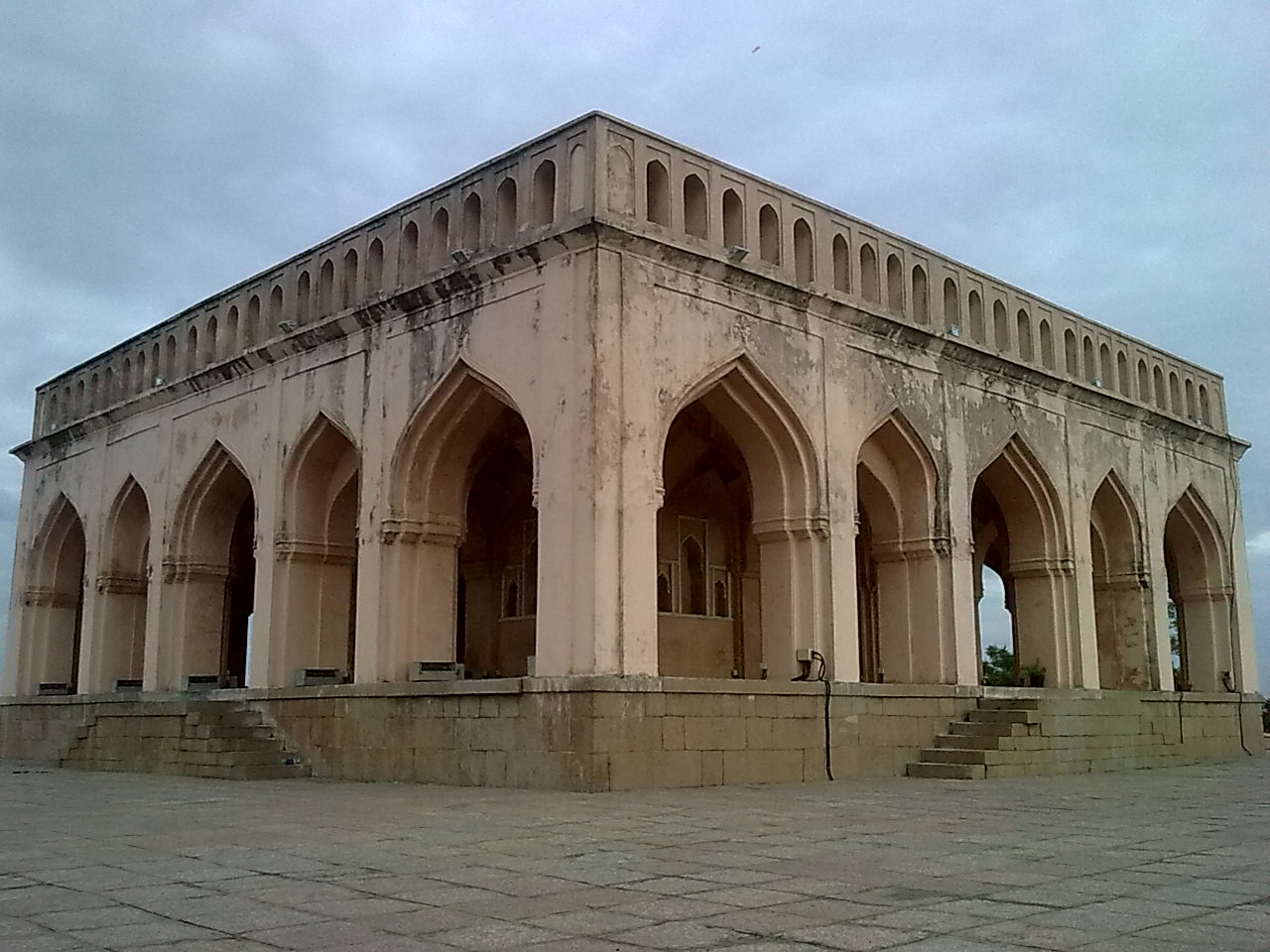 Picture of Taramati Baradari near Golkonda fort, Hyderabad.